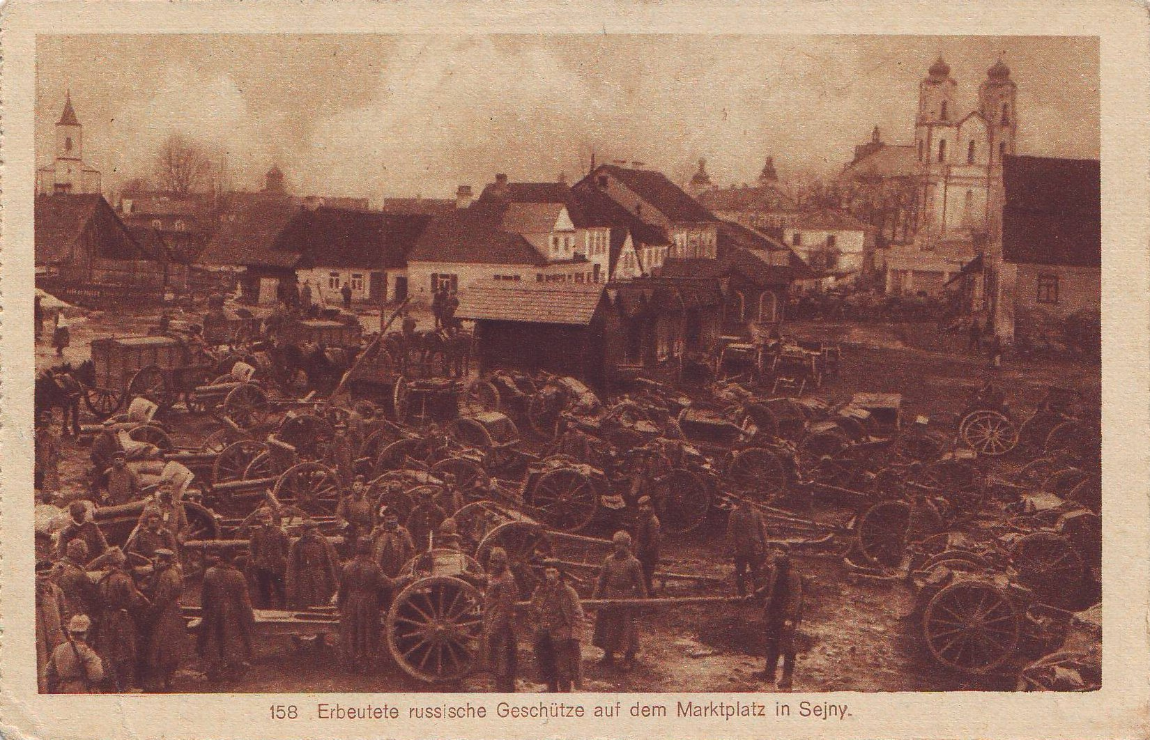 Russian artillery seized by the Germans in Sejny (now in Poland) in 1915